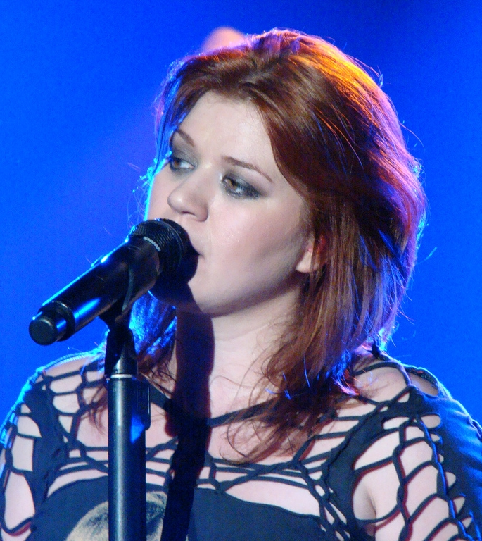 Kelly Clarkson performing live 2012 on her All I Ever Wanted Tour